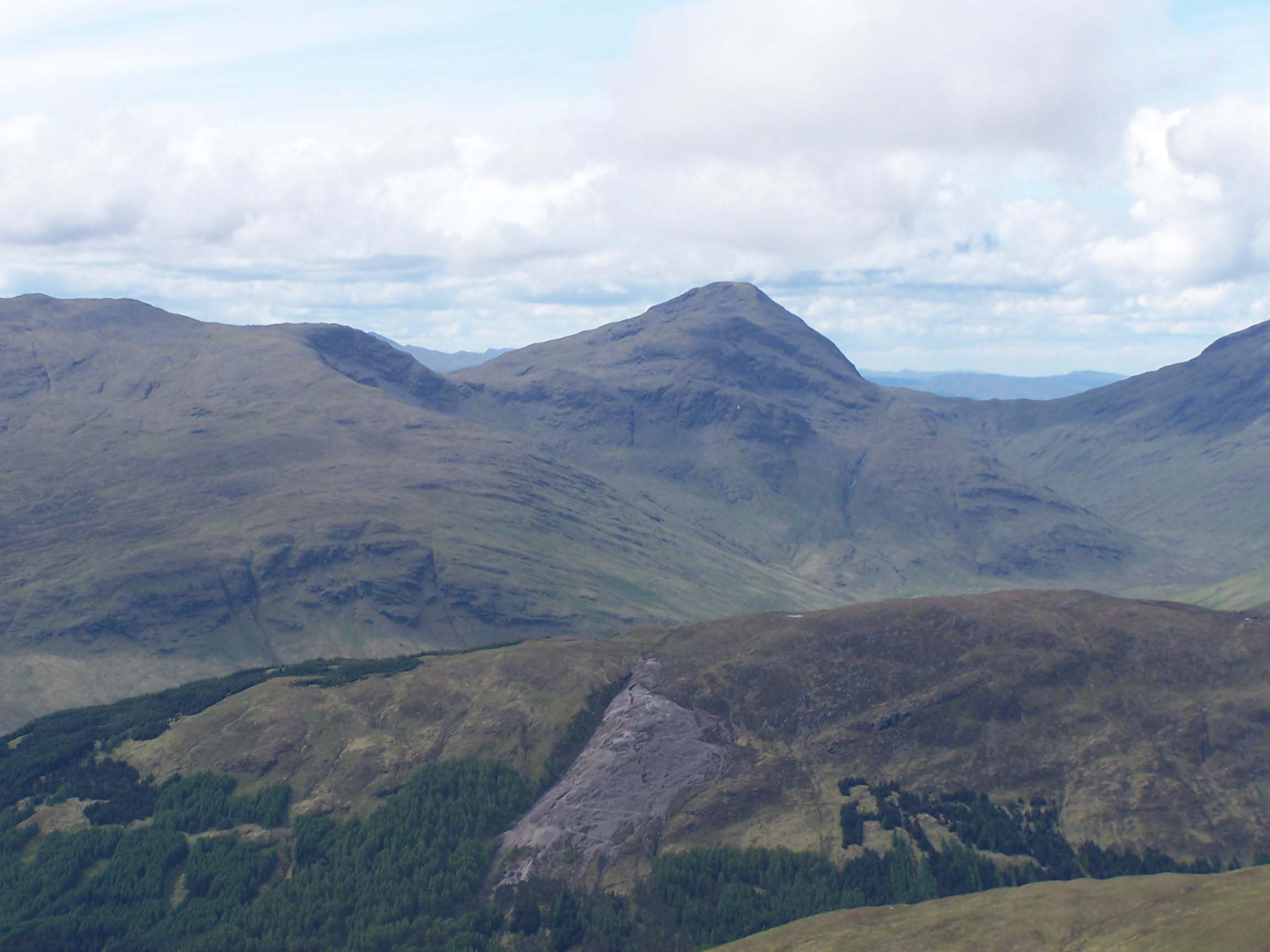 Personal picture taken by Mick Knapton